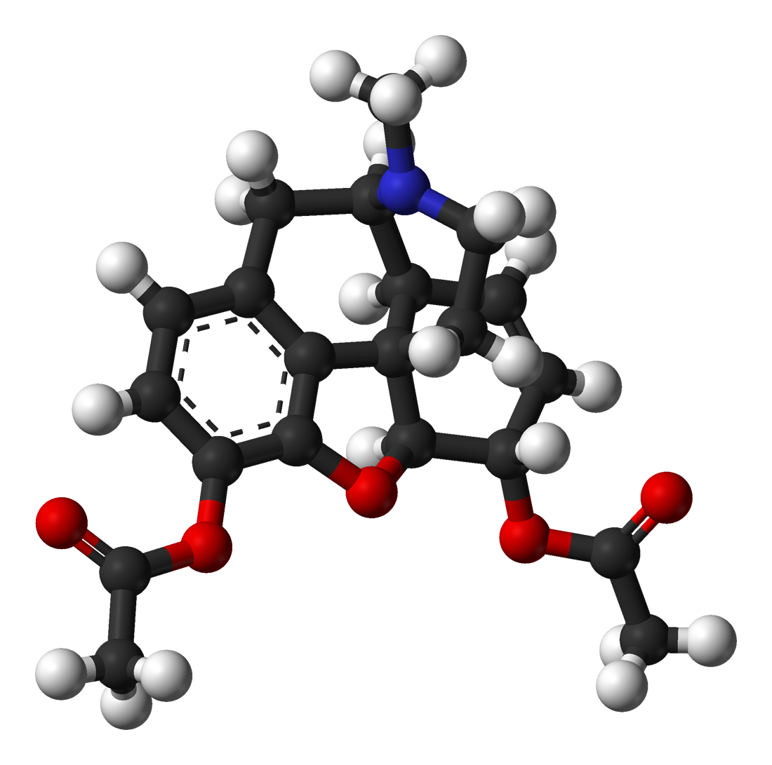 Ball-and-stick model of the heroin molecule.